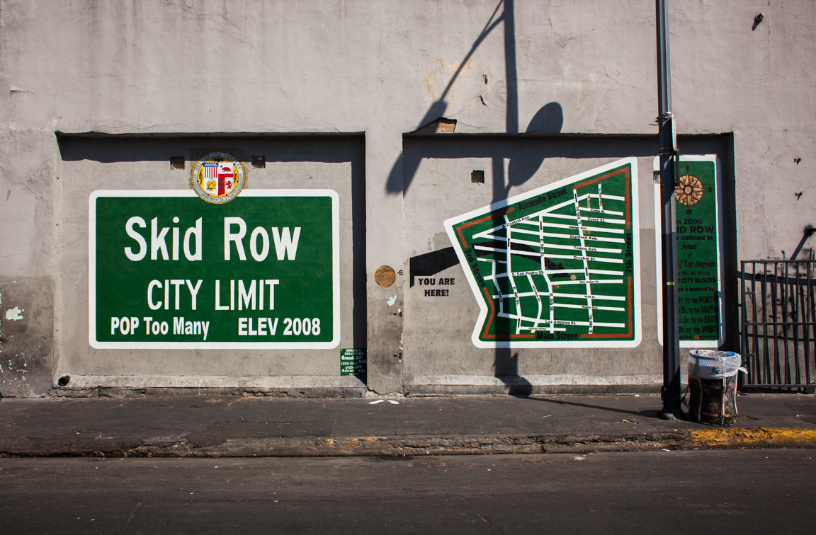 This mural is located on San Julian St in the heart of Downtown Los Angeles's Skid Row. The painting was completed on August 1st, 2014